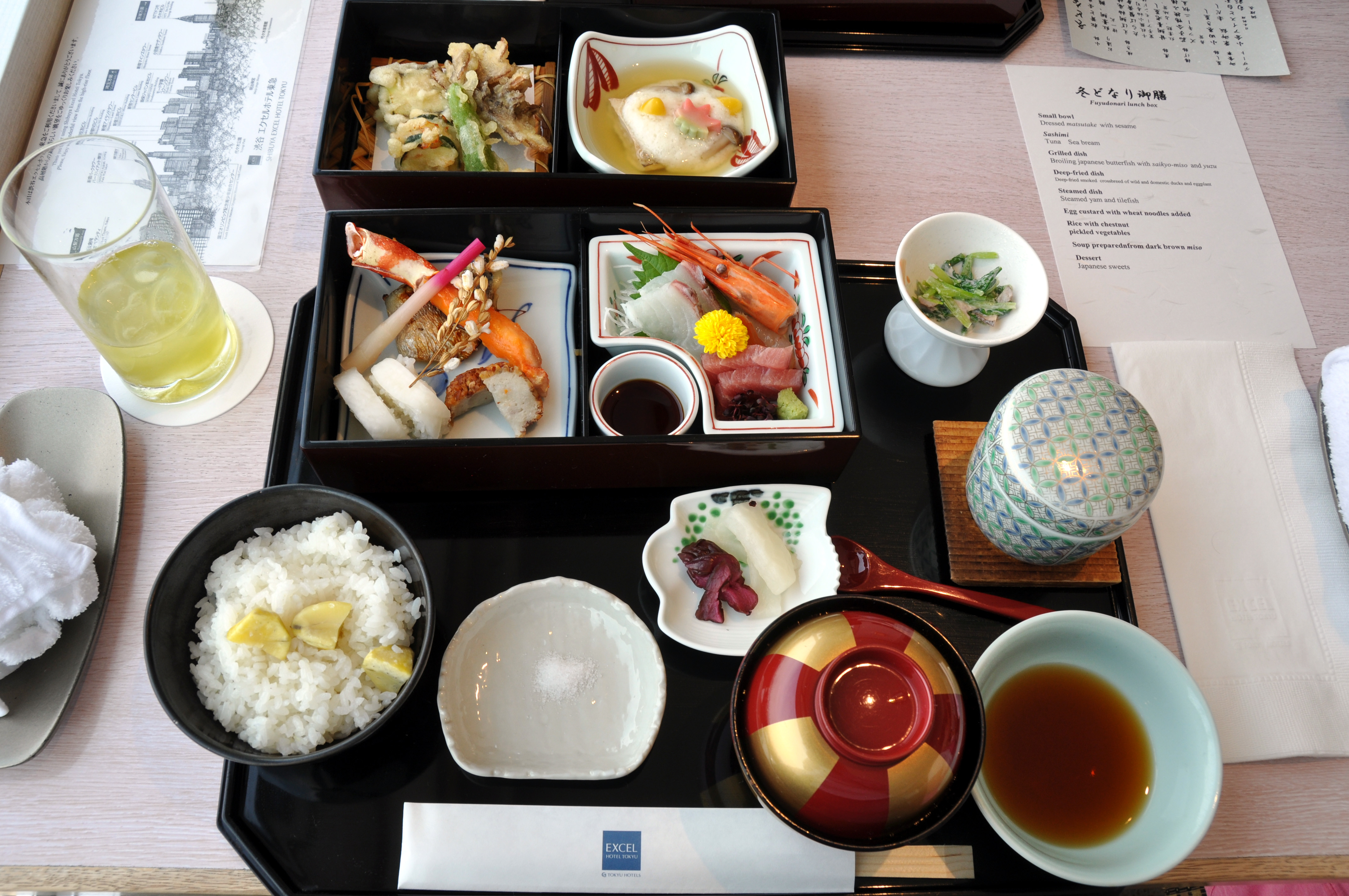 Tempura, sashimi, pickles, ris og misosuppe (Tempura, sashimi, pickles, rice and miso soup)